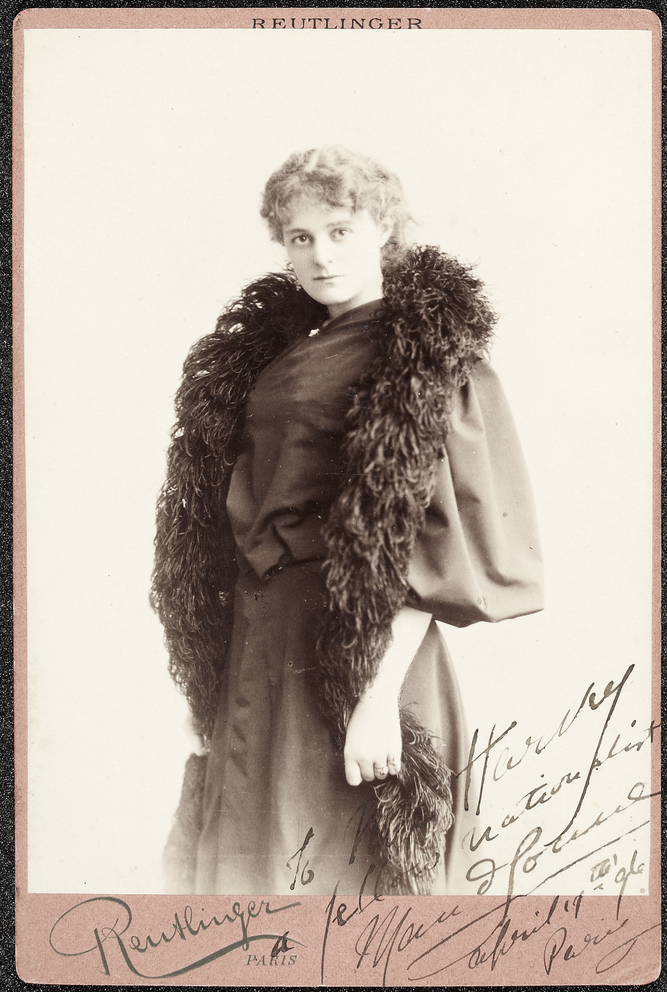 {NOTE: This image was originally posted on Thursday 15 Feb 2018. While an error led to its deletion, we have attempted to restore as much of the origiinal text/comments/insights as possible} Earlier this week we had Darrell Figgis of whom very little was known - but today we have a lady whose name remains in almost everyday use. Maud Gonne is one of those few women in history who is known for herself rather than for her husband. Having said that, while we know of her involvement with the early years of the last century and many of the characters in the Ireland at that time, we know little of her origins and her own family. Perhaps there will be some learning all round. Based on the inputs on the inscription, the suggestion is that it reads: To M[r?] Harvey[?] / A fellow nationalist Maud Gonne / April 19th [18]96 / Paris If so, this photo dates from when Maud Gonne was living in Paris. Aged then in her late 20s, she became the editor of the French language nationalist paper, L'Irlande Libre by the late 1890s. She would later marry Major John MacBride, turning down the advances of WB Yeats (who, as any Irish schoolchild will tell you, didn't take the rejection especially well). The suggestion is that the Mr Harvey mentioned in the inscription was Edmund Harvey. He was a writer and activist who authored several pamphlets for the women's suffrage movement - including "The Position of Irishwomen in Local Administration" published the same year as this photo. We have mapped the image to Reutlinger's photographic studio at 21 Boulevard Montmartre in Paris.... Collection: Irish Political Figures Photographic Collection NLI Ref: NPA POLF82 You can also view this image, and many thousands of others, on the NLI's catalogue at .